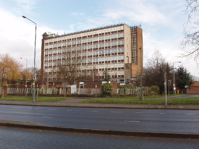 University of Westminster, Harrow Campus. In Northwick Park, photo taken across Watford Road. This campus has schools of business, computer science, and media, arts, design.